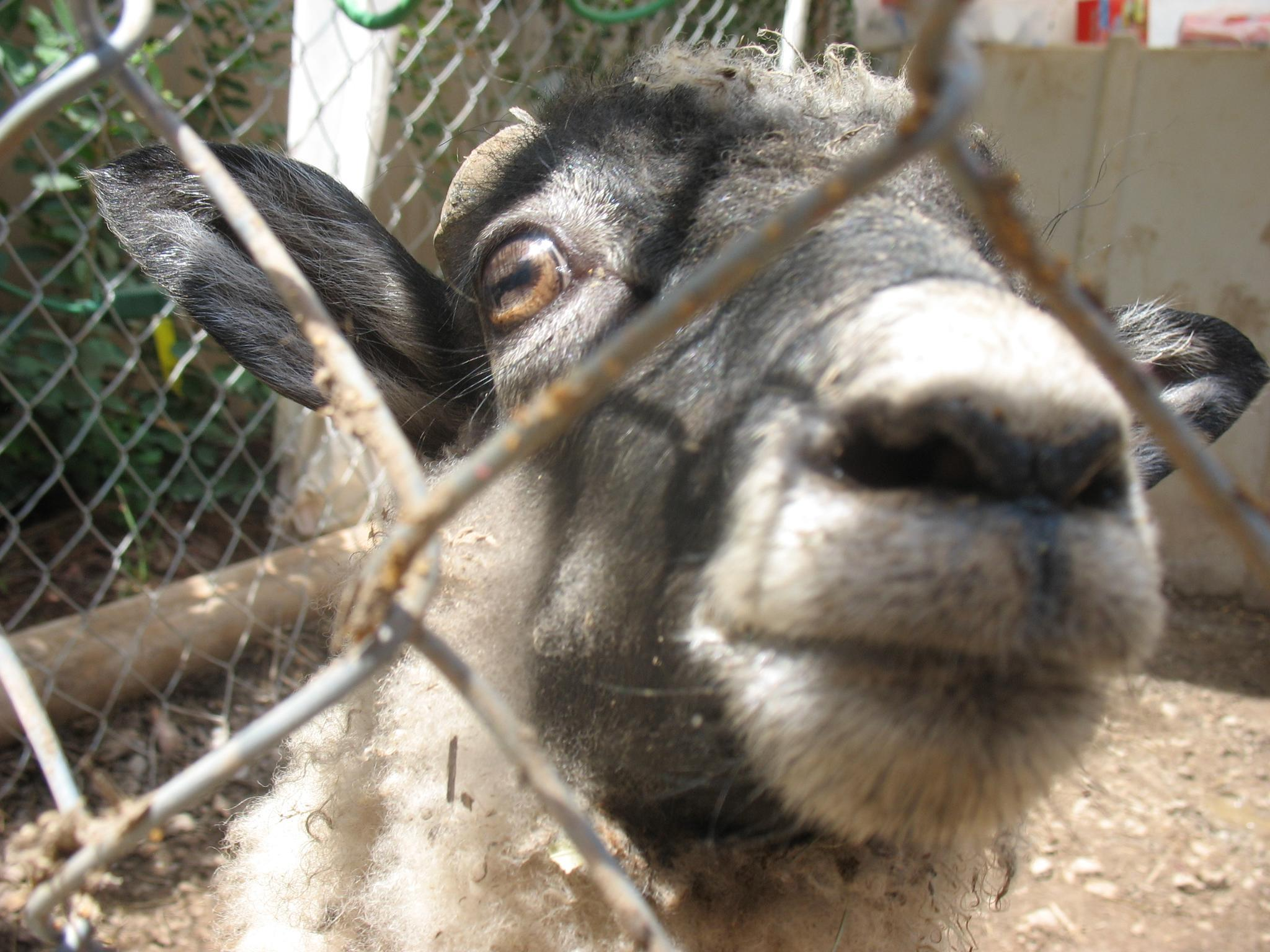 A closeup to the goat's snout